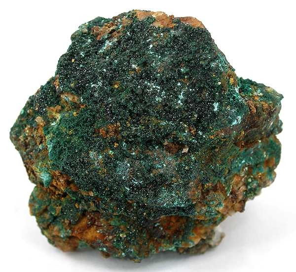 Paratacamite Locality: Levant Mine, Trewellard, Botallack - Pendeen Area, St Just District, Cornwall, England, UK (Locality at ) Size: 3.9 x 3.5 x 1.9 cm. A very rich specimen of microcrystalline, brilliant green paratacamite crystals - exceedingly rich from the locality. Ex. Richard Barstow Collection.